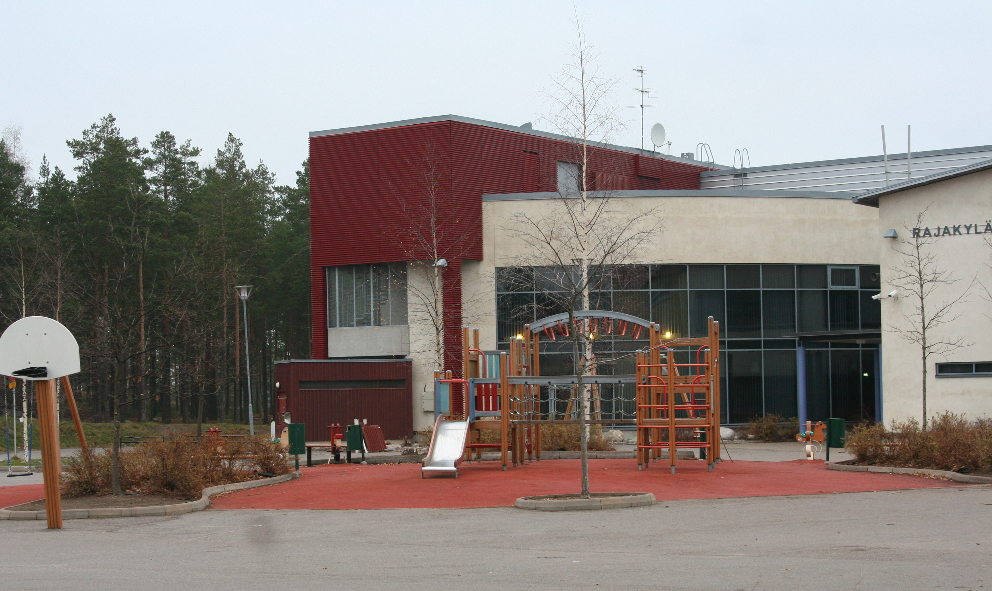 Rajakylä scool, Rajakylä, Vantaa, Finland